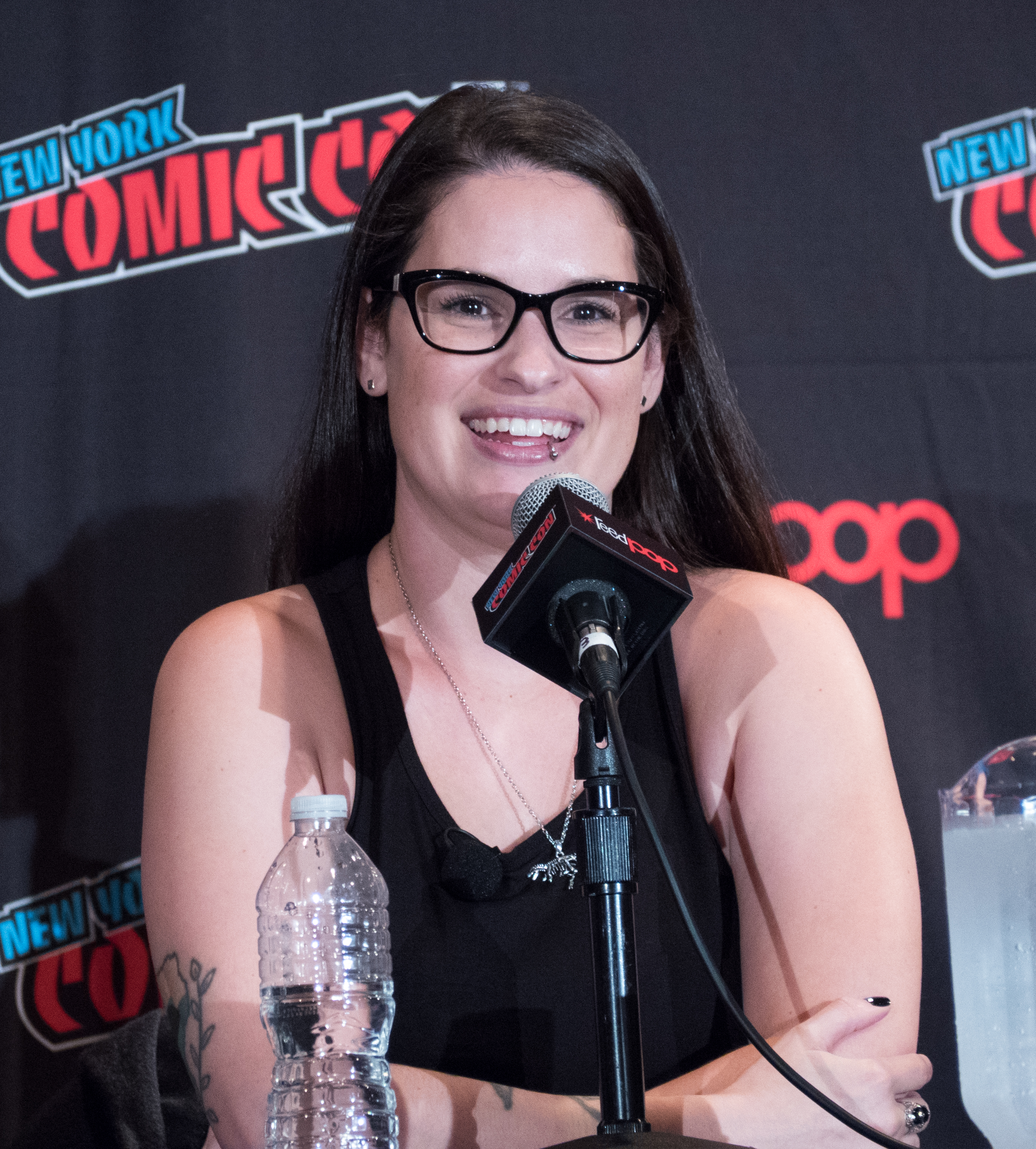 Cara Santa Maria on the Science or Fiction panel at New York Comic Con in October 2018.